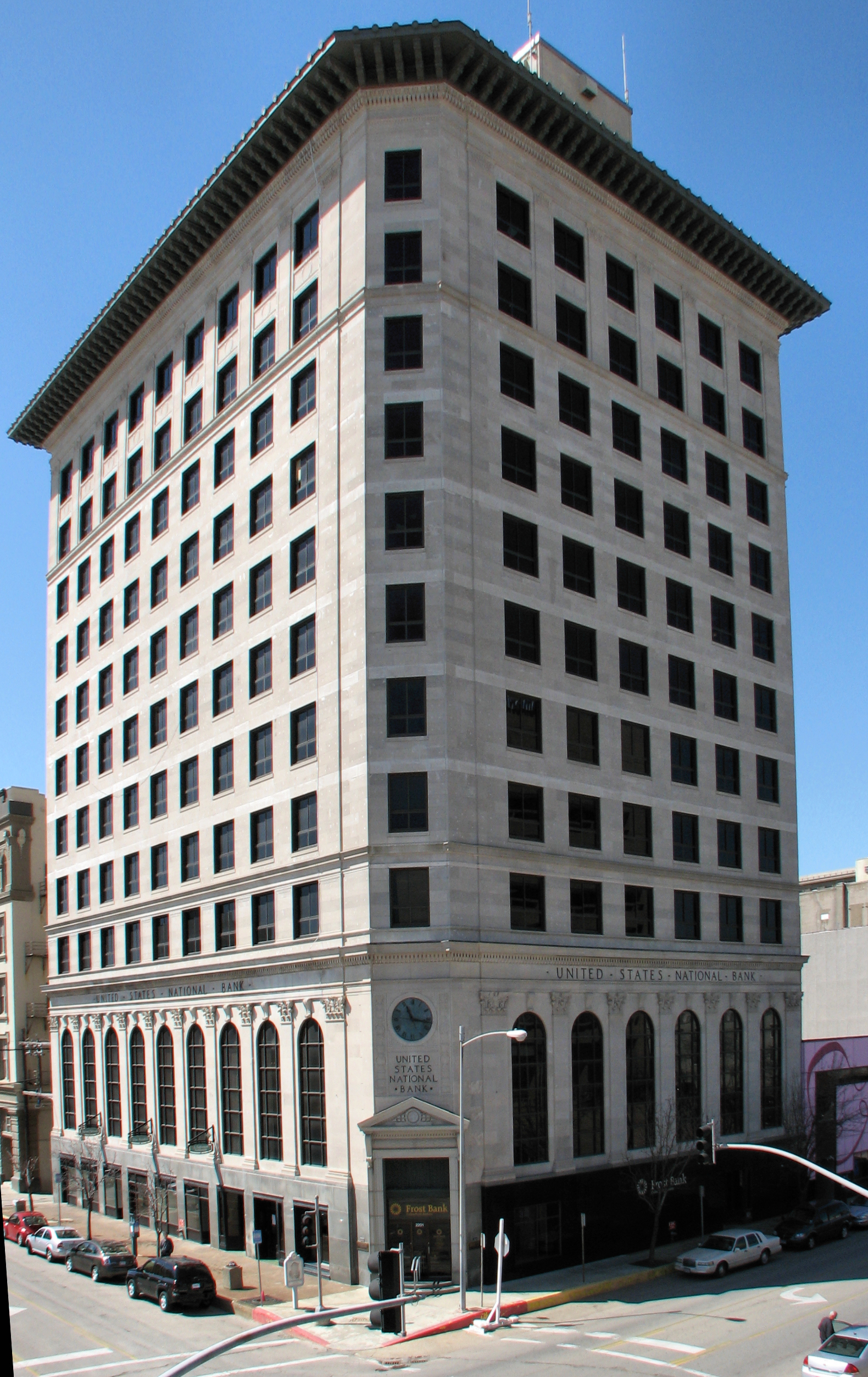 Photo of the United States National Bank building in downtown Galveston, Texas. It currently houses a branch of Frost National Bank, of which USNB was a legacy bank.